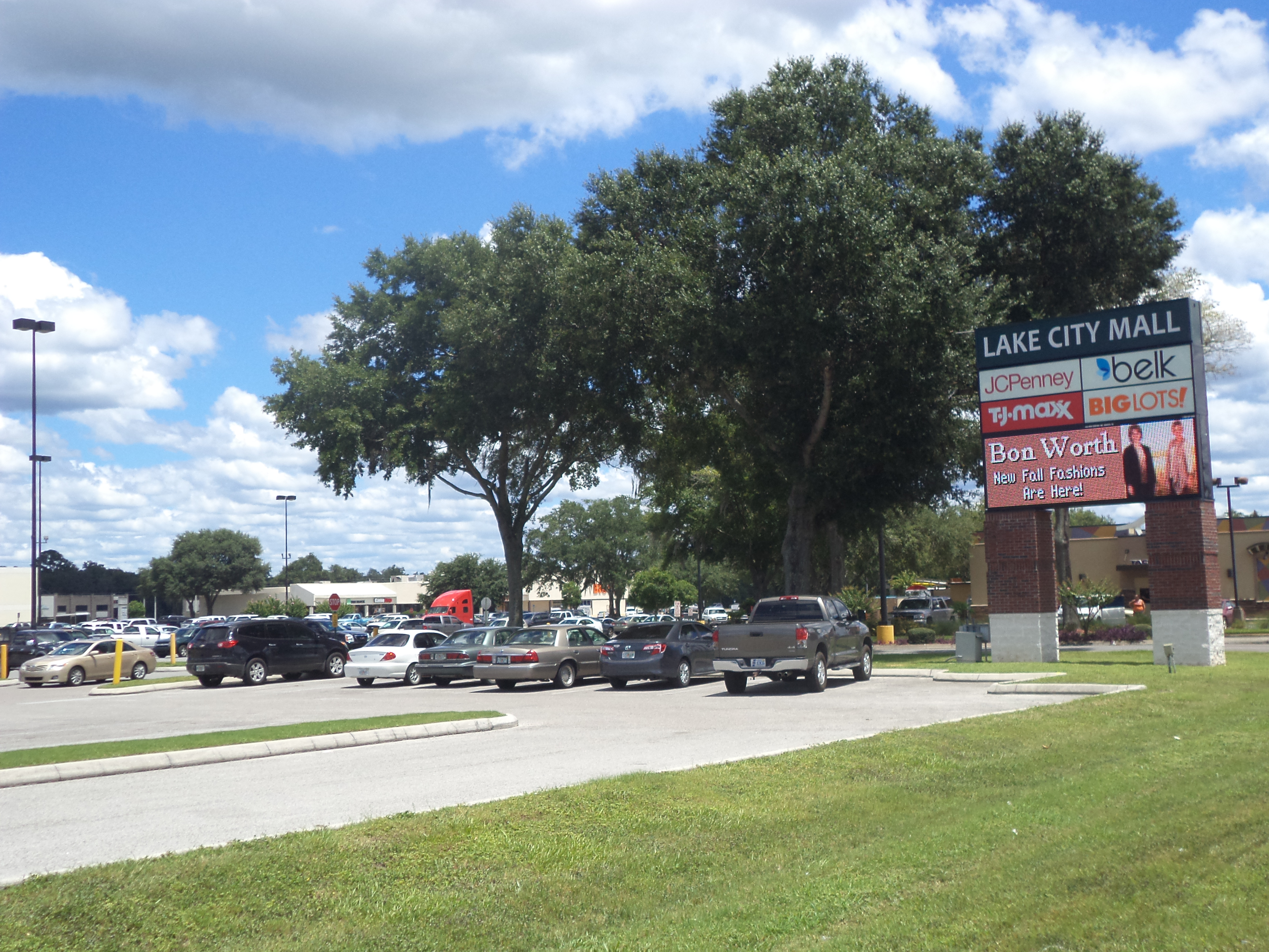 Lake City Mall sign, Lake City, Columbia County, Florida